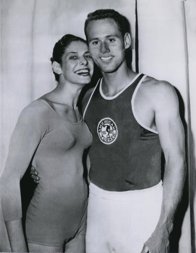 1956 Press Photo Sandra Ruddick & John Beckner Won Women's & Men's Championship